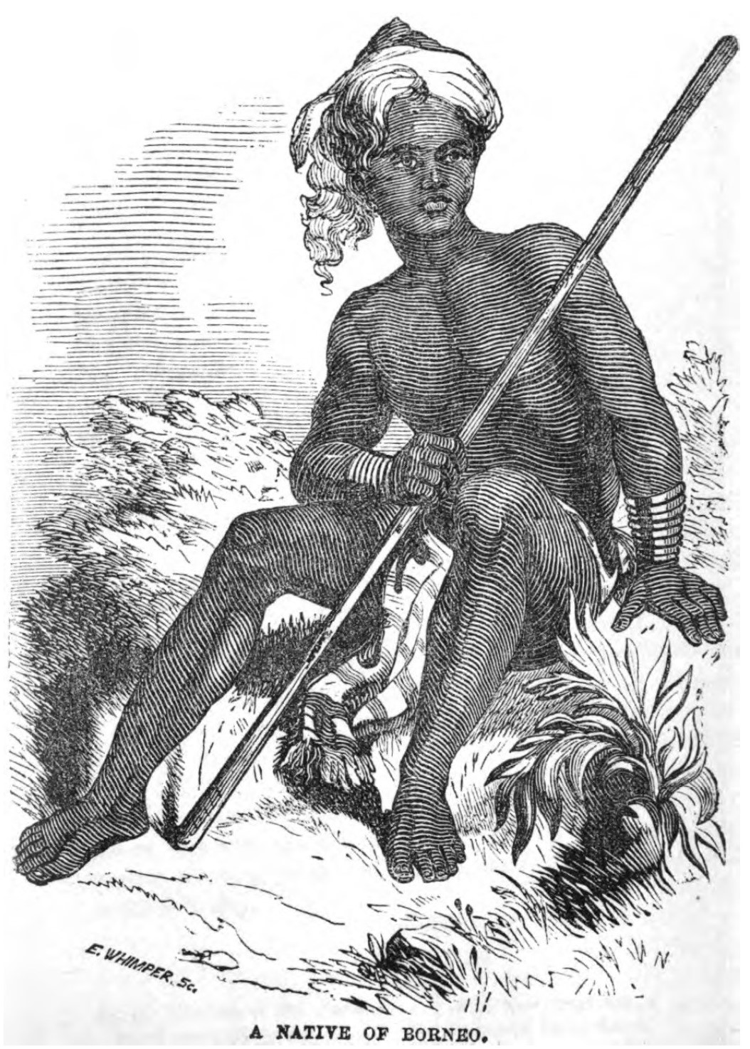 A Native of Borneo (June 1853, X, p.60)